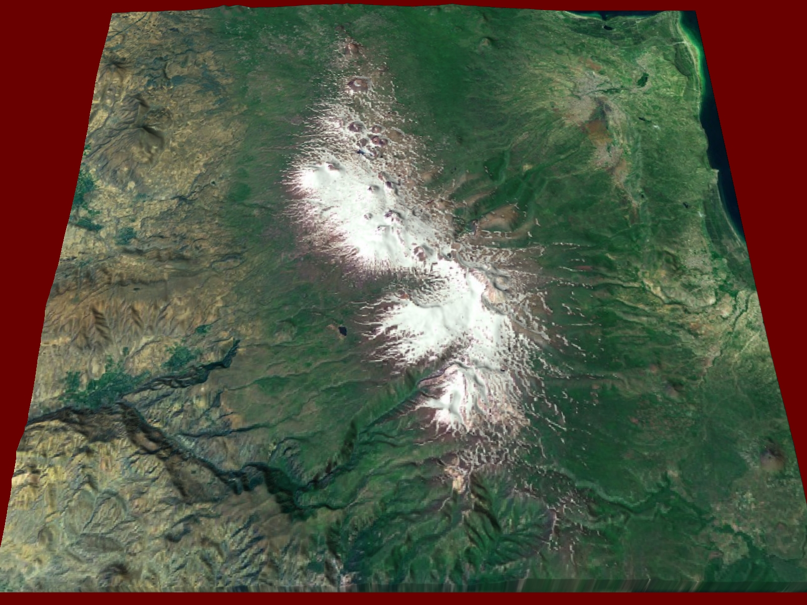 Gegham from space. Picture realised with STRM data from NASA.